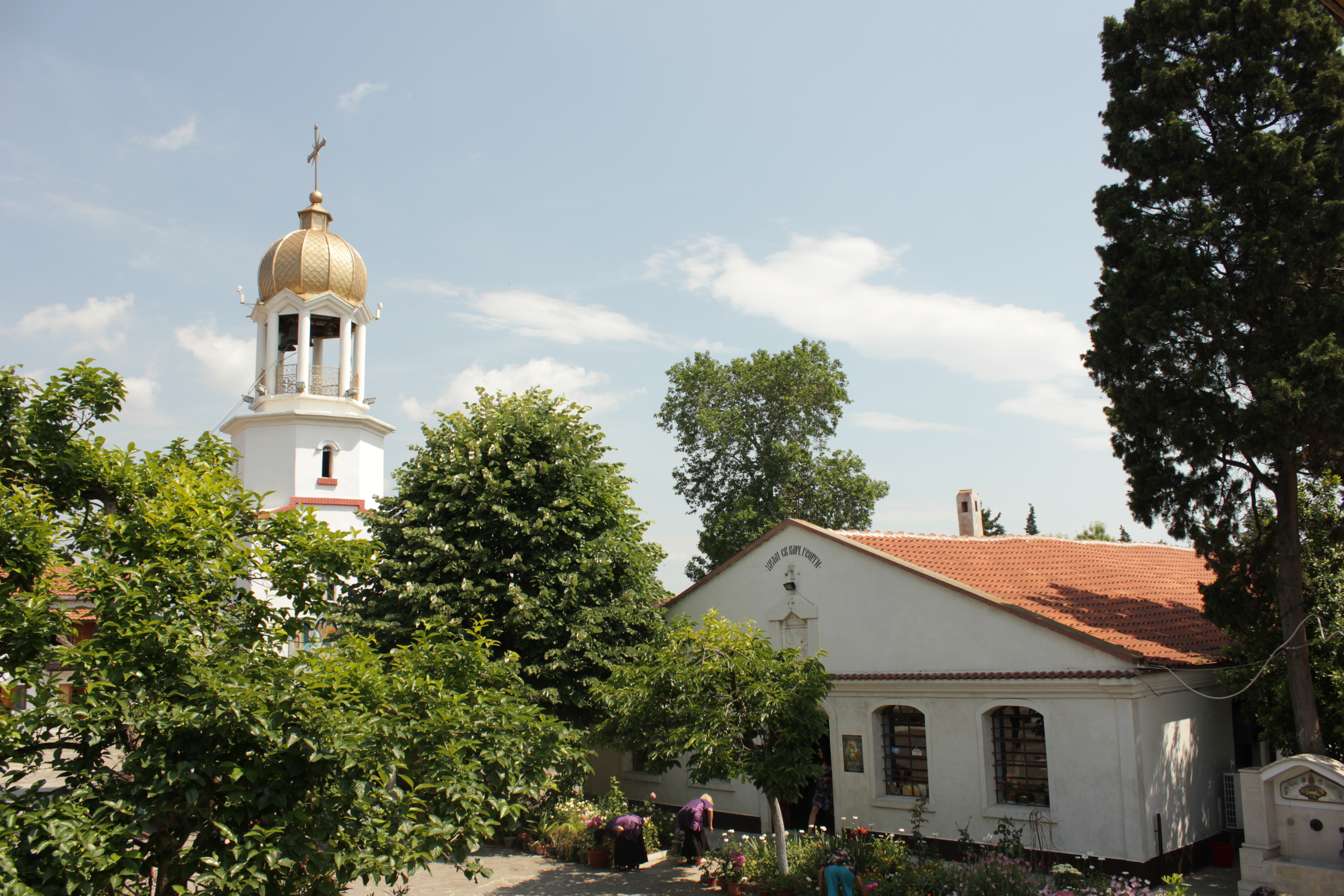 Pomorie Saint George Monastery church and bell tower